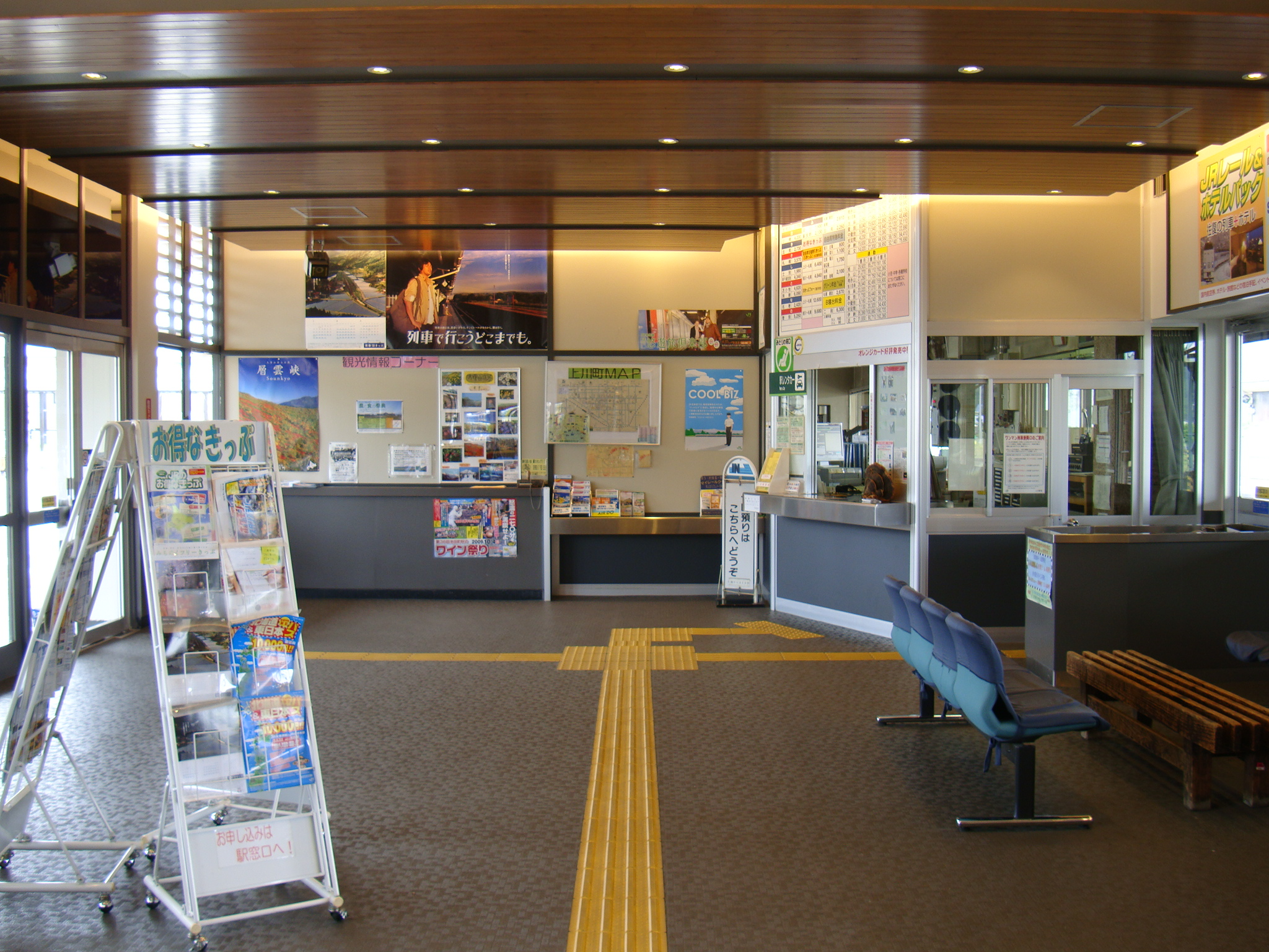 Kamikawa Station